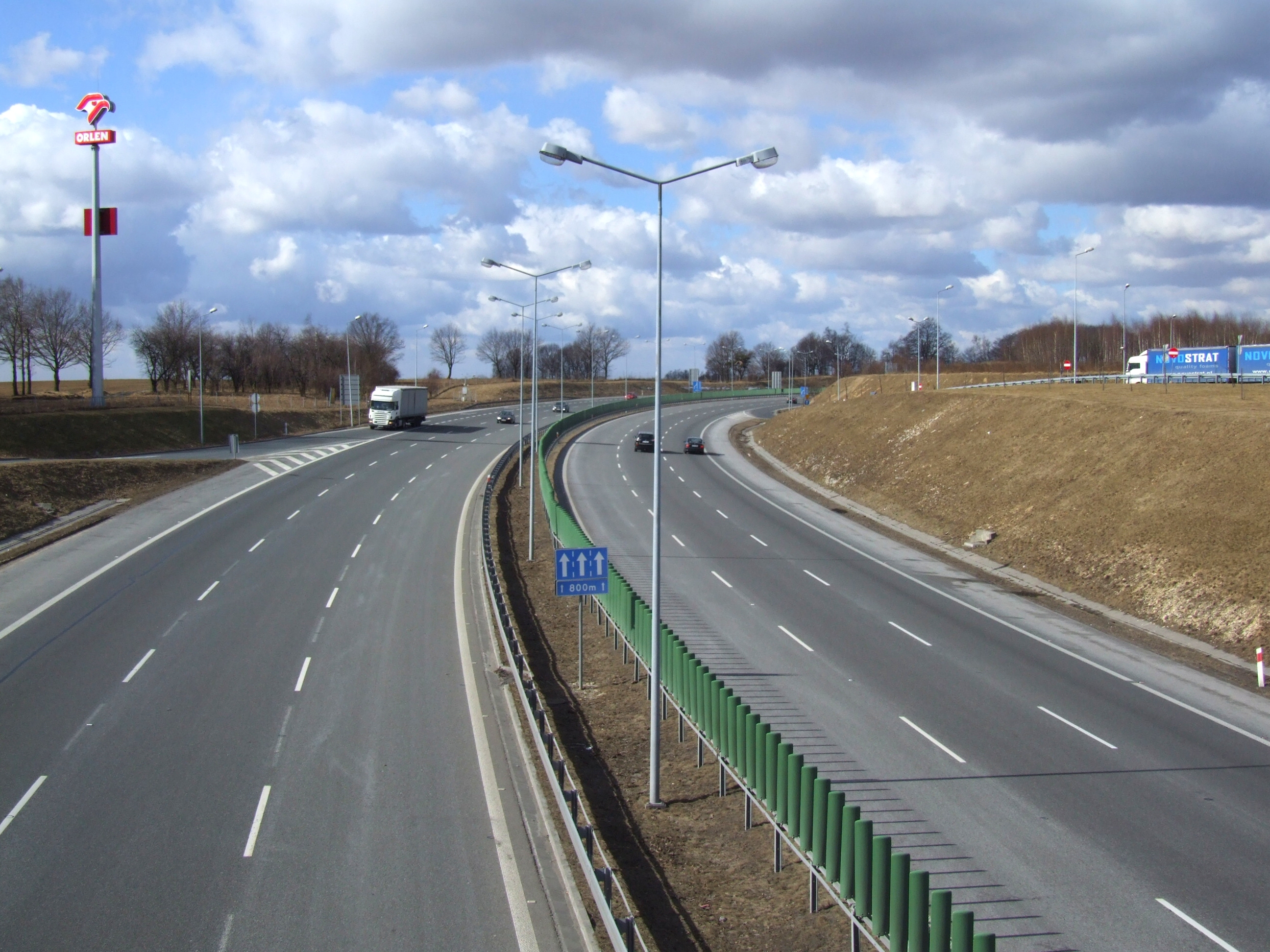 Highway A4 in Poland, near Góra Świętej Anny. Direction Opole